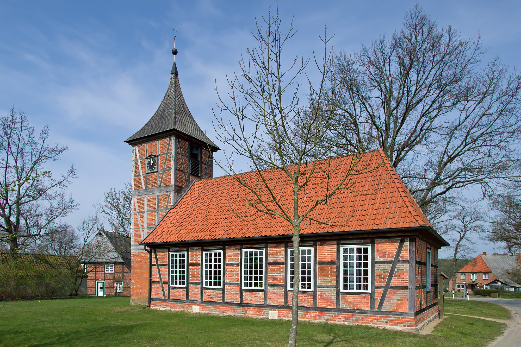 Chapel in the village Haar (Amt Neuhaus, district Lüneburg, northern Germany).